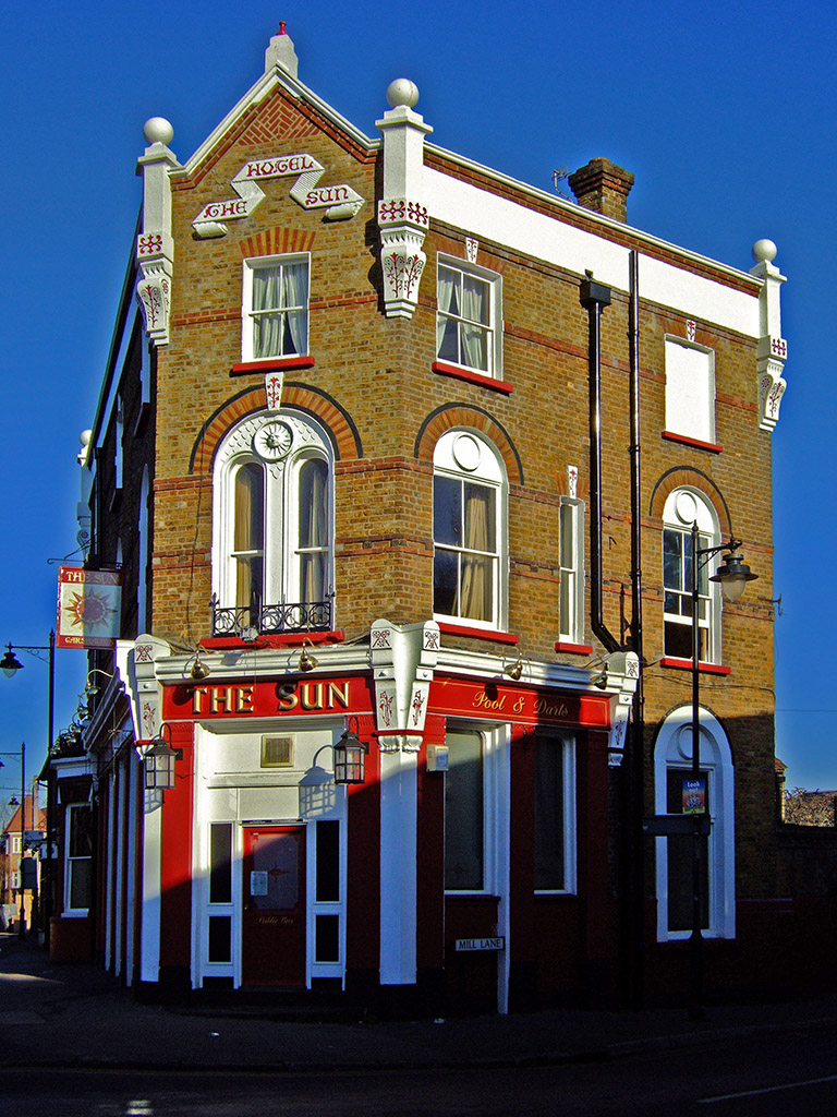 The Sun, Carshalton, Surrey, United Kingdom.